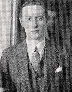 Prince Carl of Sweden (1911), later called Prince Carl Bernadotte